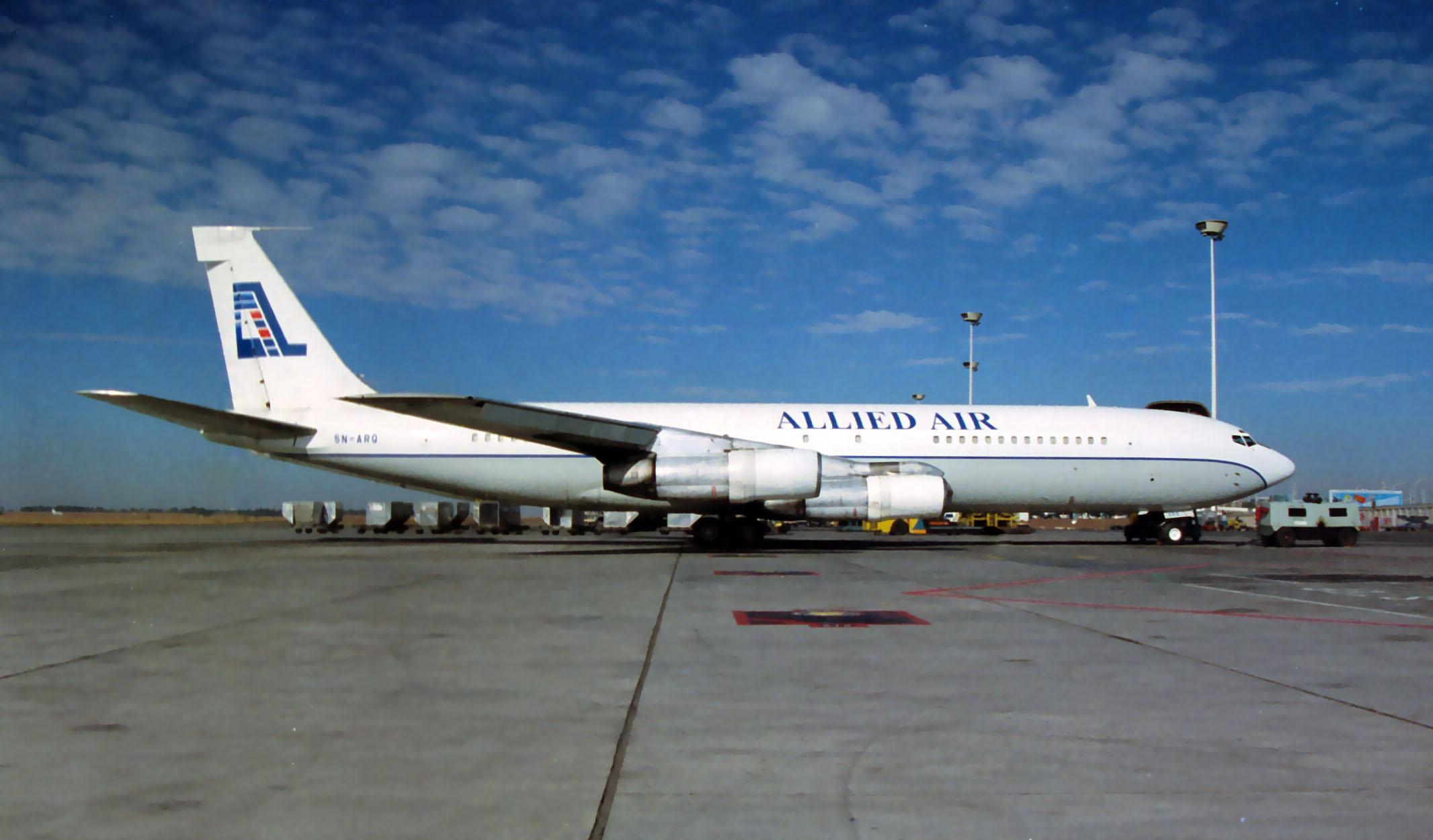 Allied Air B707-338C 5N-ARQ